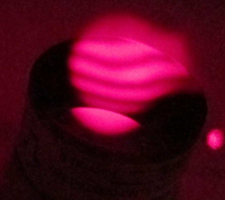 An optical flat test performed when there is too little angular size in the light. The fringes only form within the reflection of the light source, so it must be positioned so that the reflection completely covers the flat.